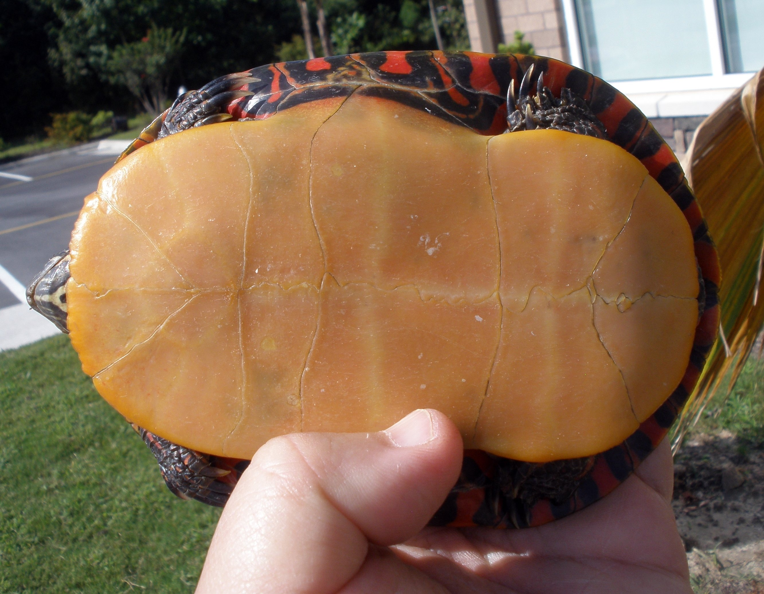 The plastron, bottom section, of the carapace (shell) on this turtle was nice and smooth - no scars or wear marks from rocks or anything. The color was nice and vibrant. Also, this view gives a good look at the markings on the scutes of the carapace-edges.